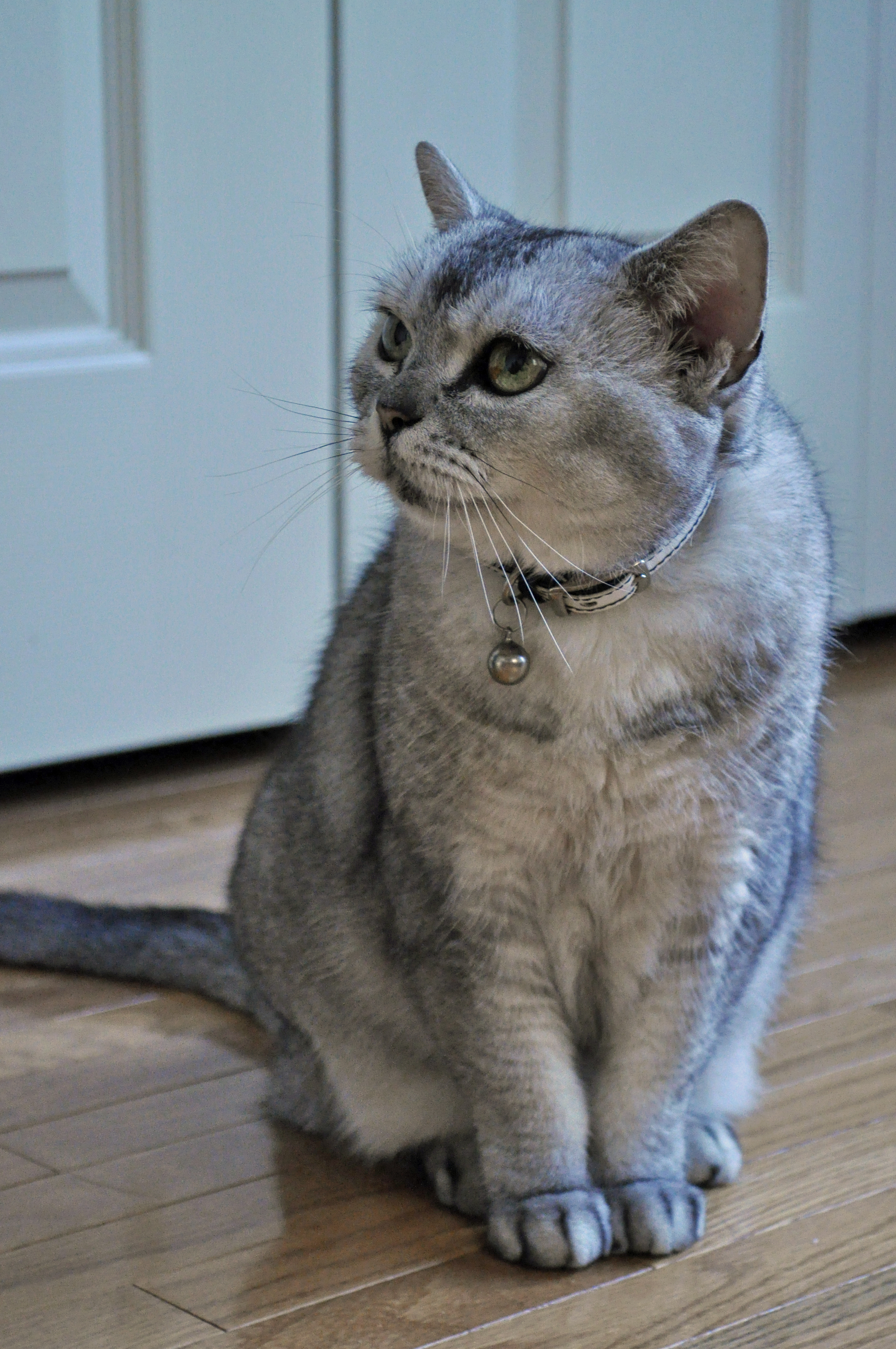 14 Years Old American Shorthair, Shaded Silver, Female